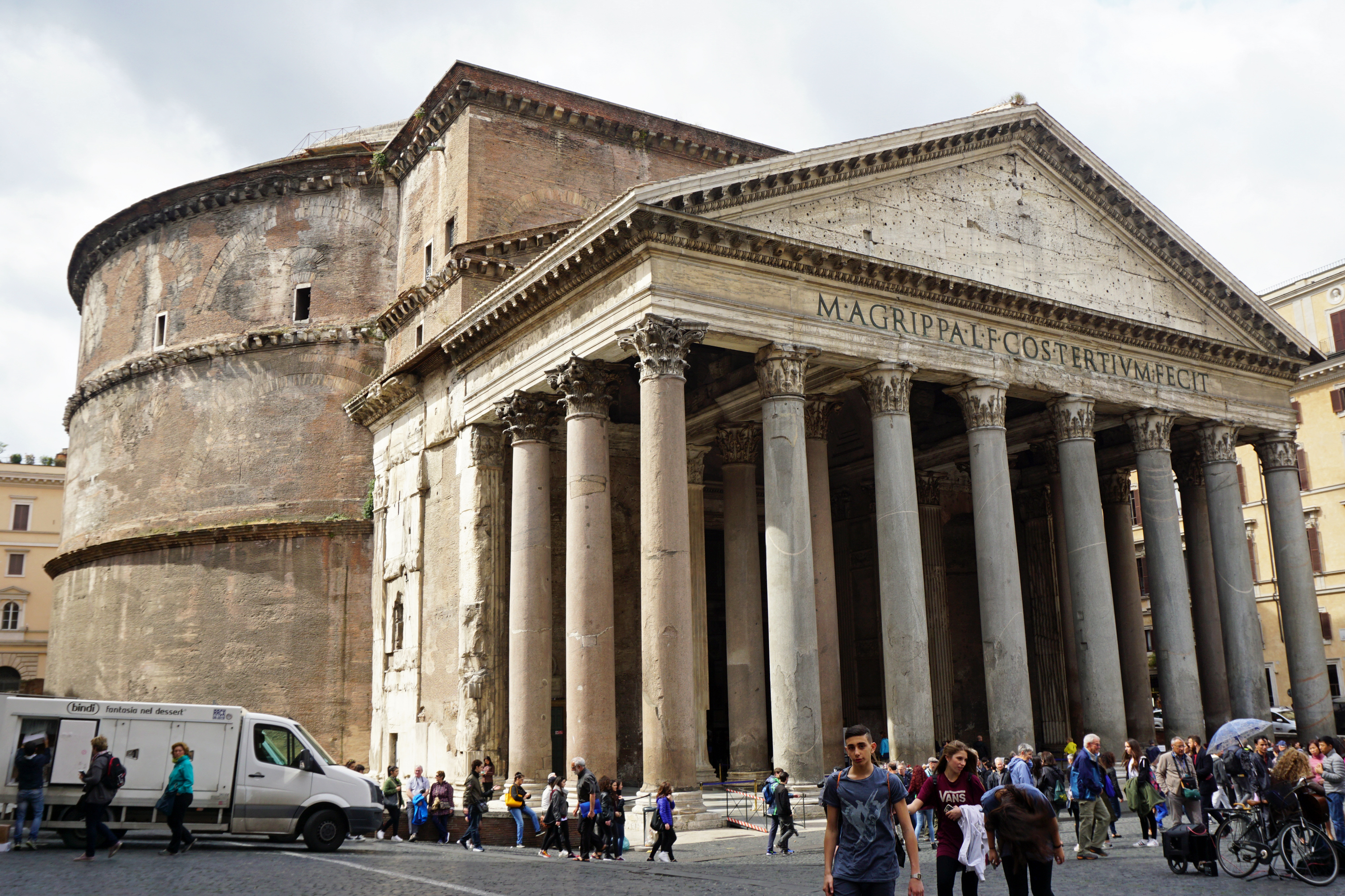 Pantheon, Rome, Italy.